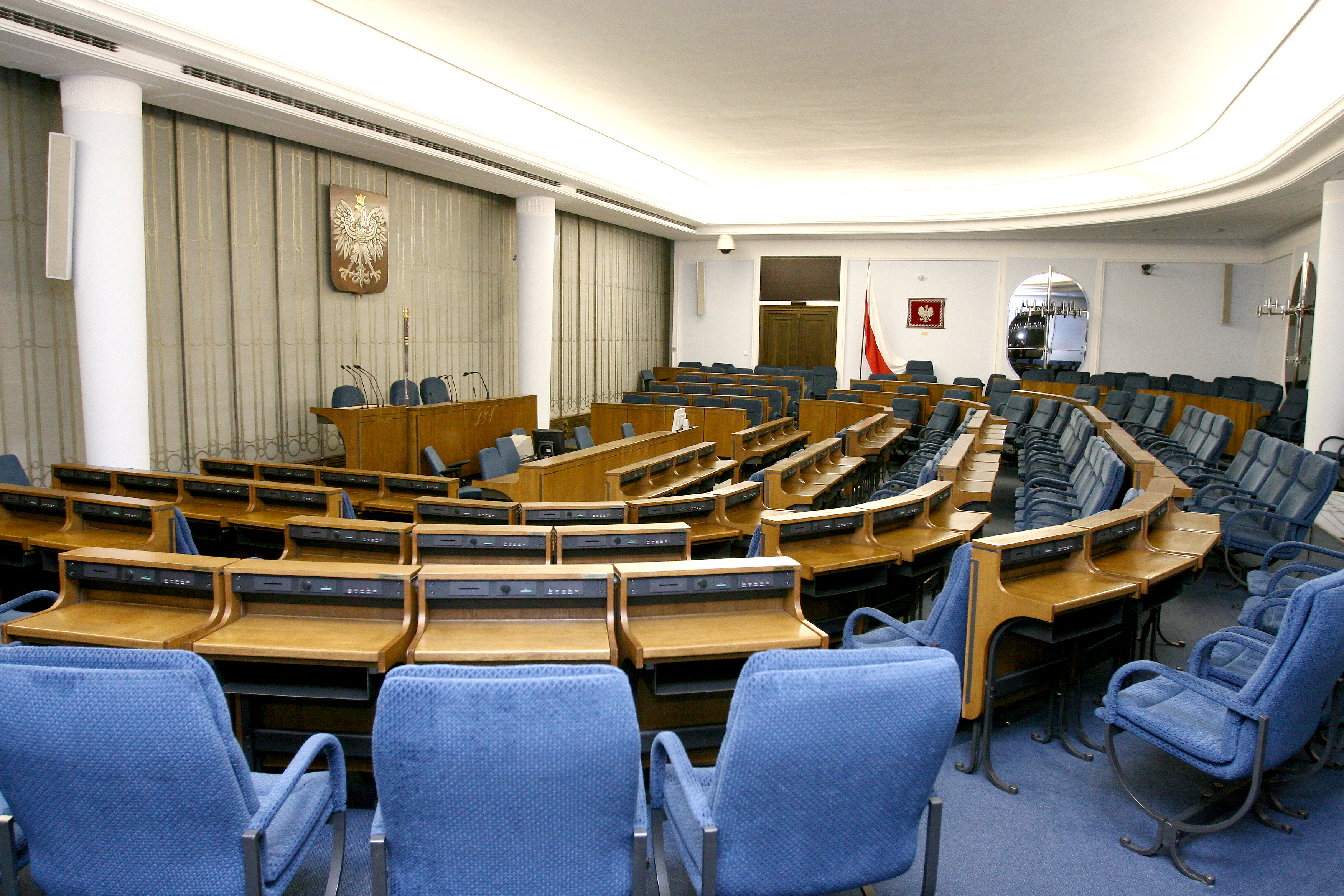 Polish Senate Debate Hall